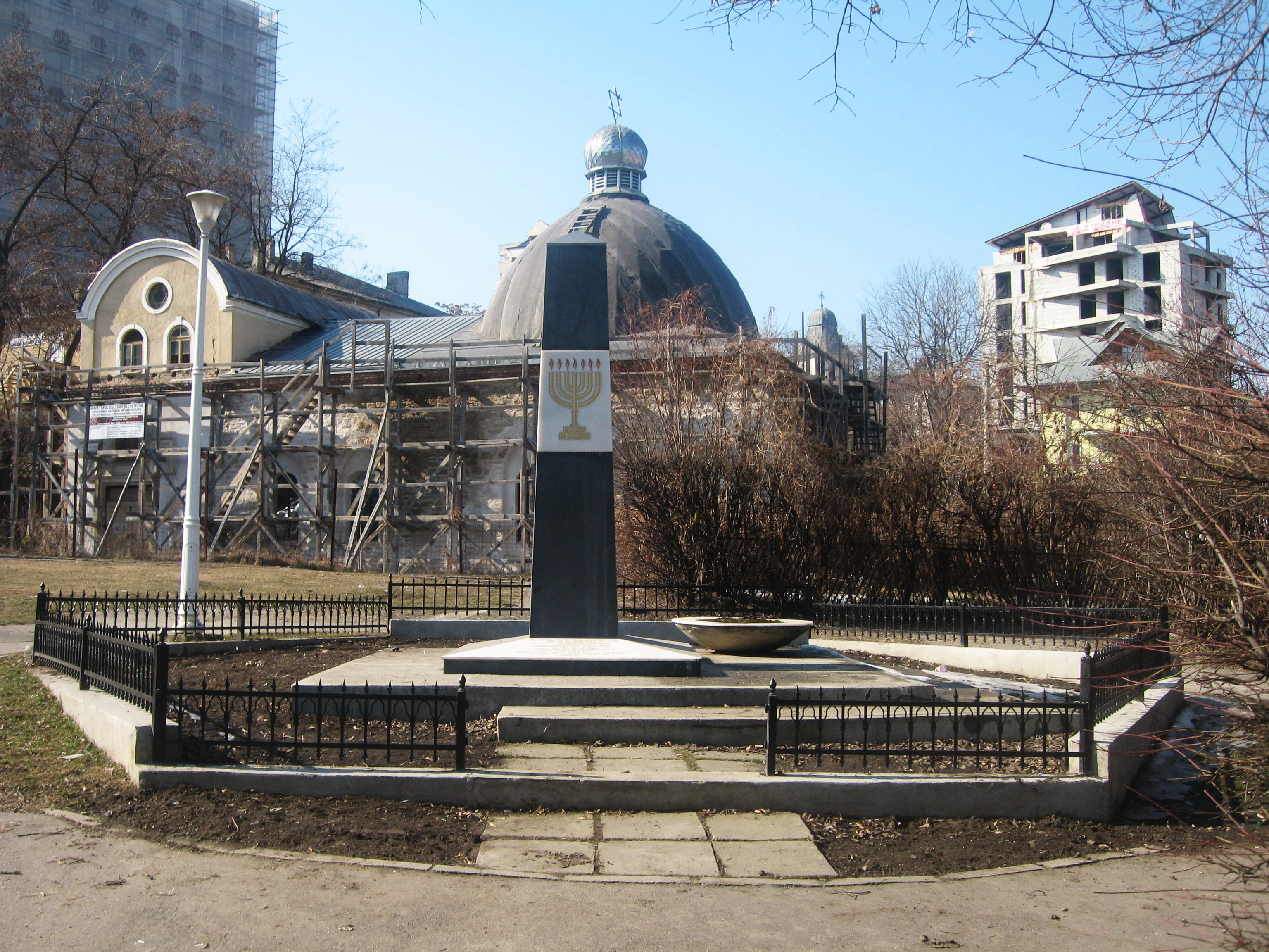 The Great Synagogue in Iaşi and Victims of Iaşi Pogrom Monument